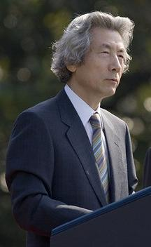 Prime Minister Junichiro Koizumi of Japan speaks during the arrival ceremony on the South Lawn Thursday, June 29, 2006. "I sincerely hope that my visit this time will enable our two countries to continue to cooperate and double-up together, and as allies in the international community make even greater contributions to the numerous challenges in the world community," said the Prime Minister.